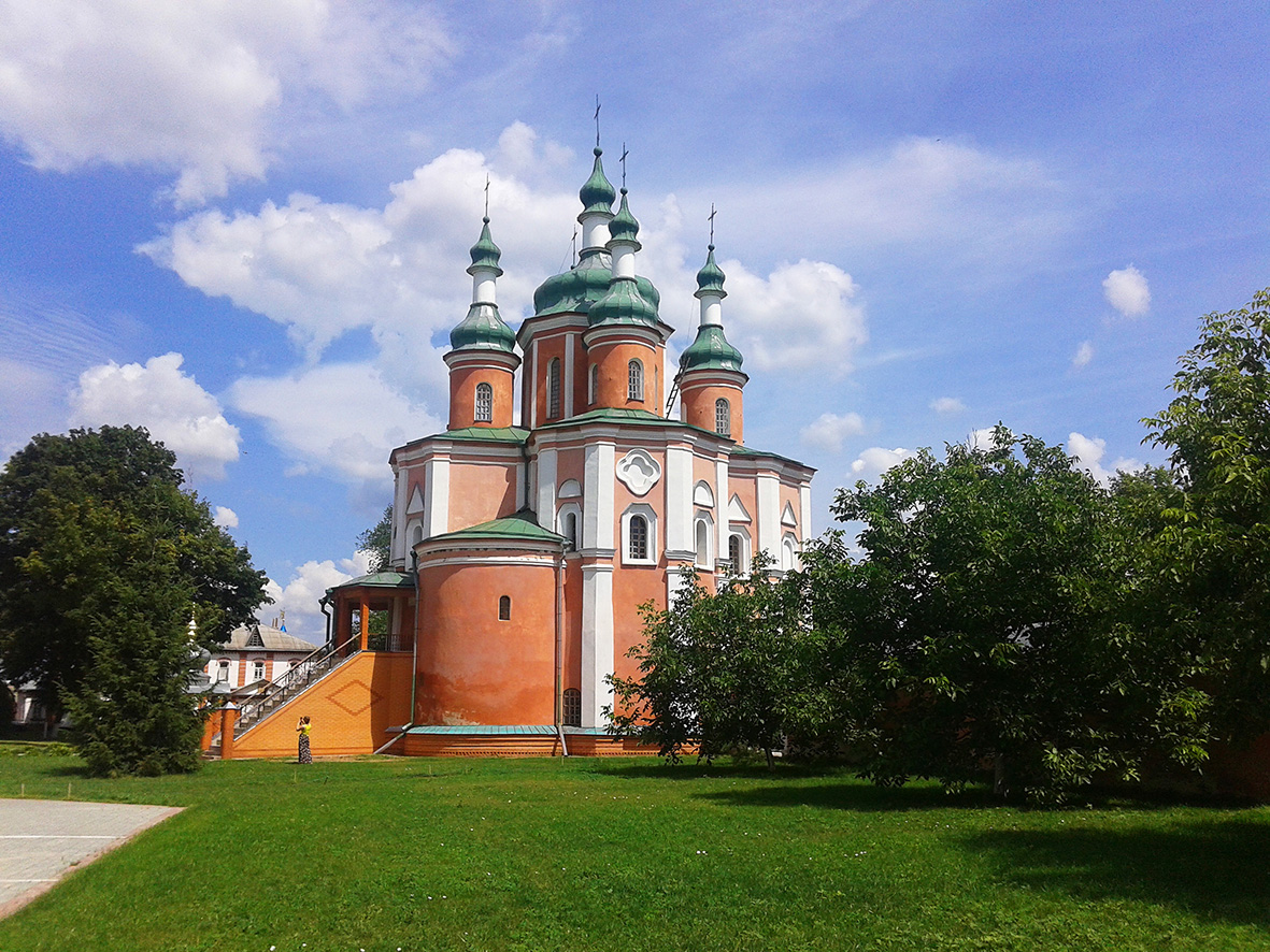 Hustynia Holy Trinity Monastery. Peter and Paul Church